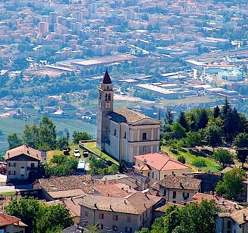 Church of Castellano (Trentino-South Tyrol)